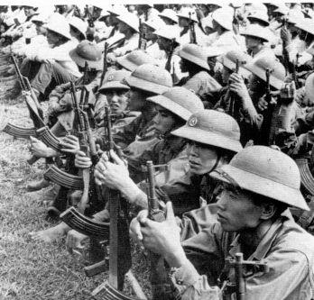 PAVN forces. US Army, US Army, Command and General Staff College, Combined Arms Research Library, Center for Military History: Vietnam Studies, (DEPARTMENT OF THE ARMY, WASHINGTON, D. C., 1989)